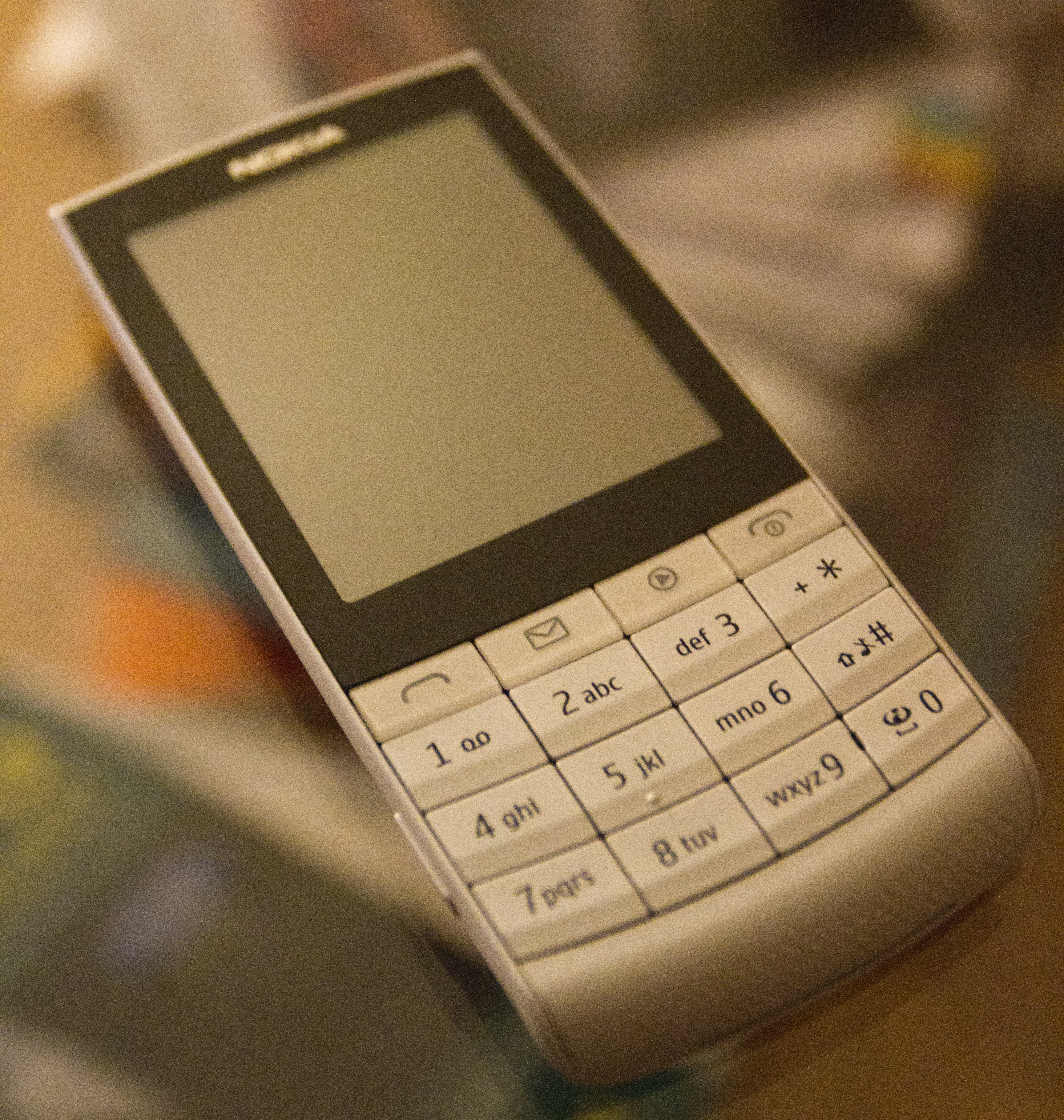 Photograph of a Nokia X3-02 Touch and Type in white